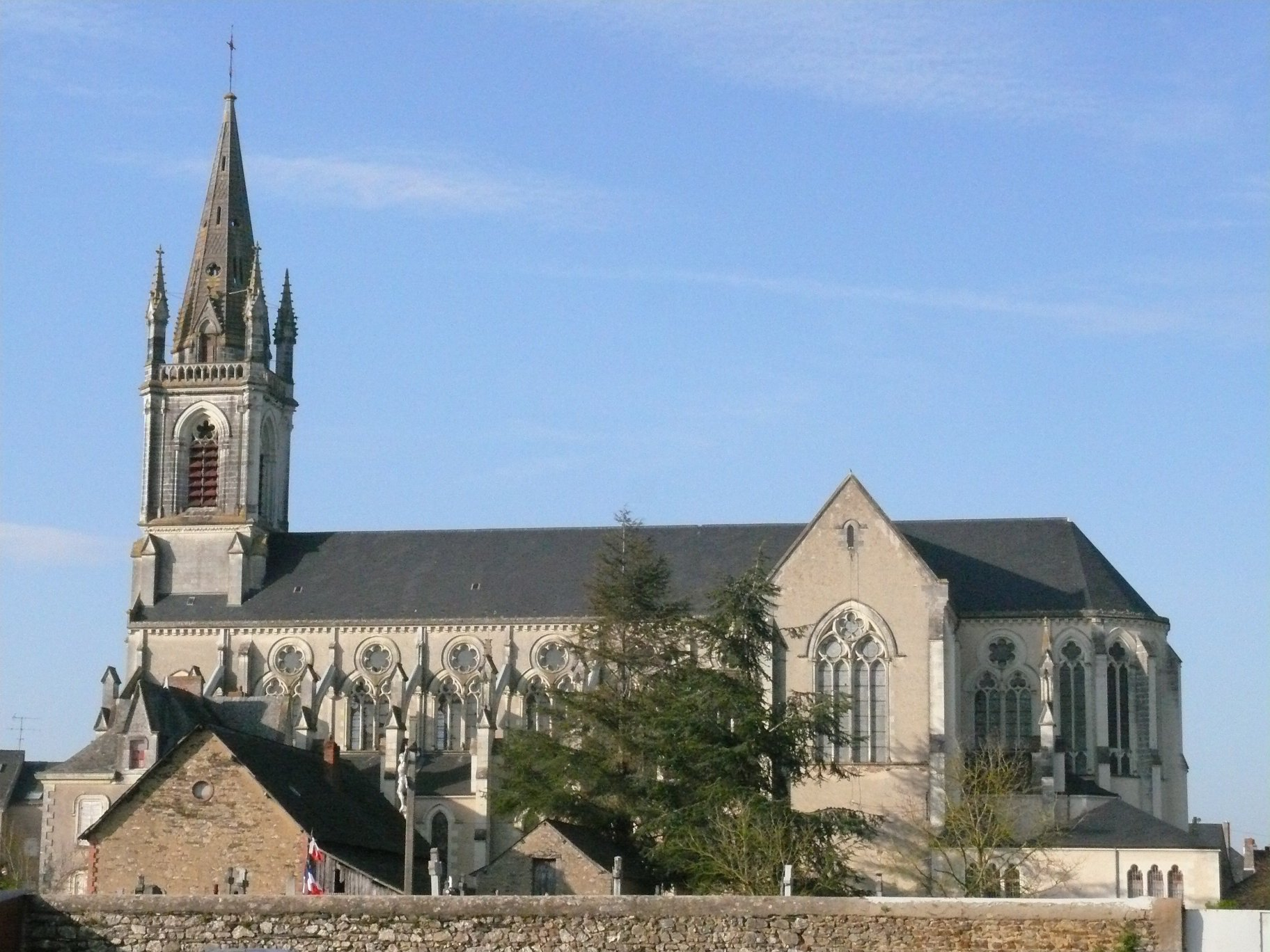 Saint-Gervais-and-Saint-Protais' church of Vern-d'Anjou (Maine-et-Loire, Pays de la Loire, France).